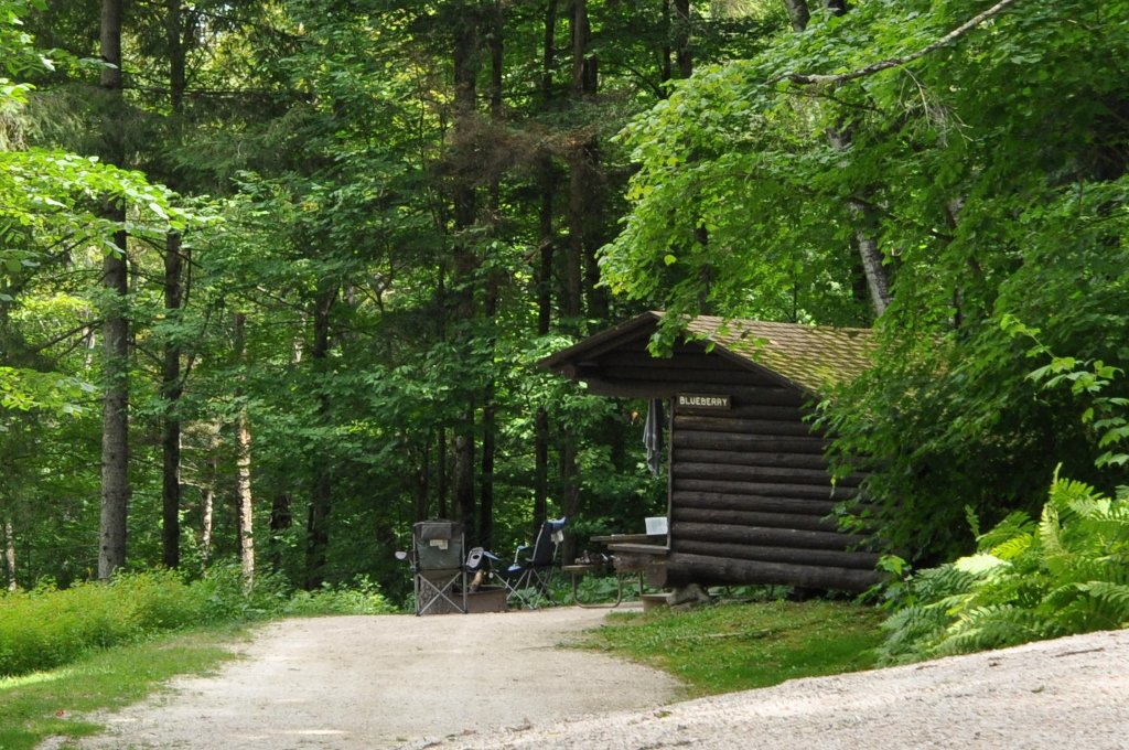 Coolidge State Park, Plymouth, Vermont. A typical leanto shelter.